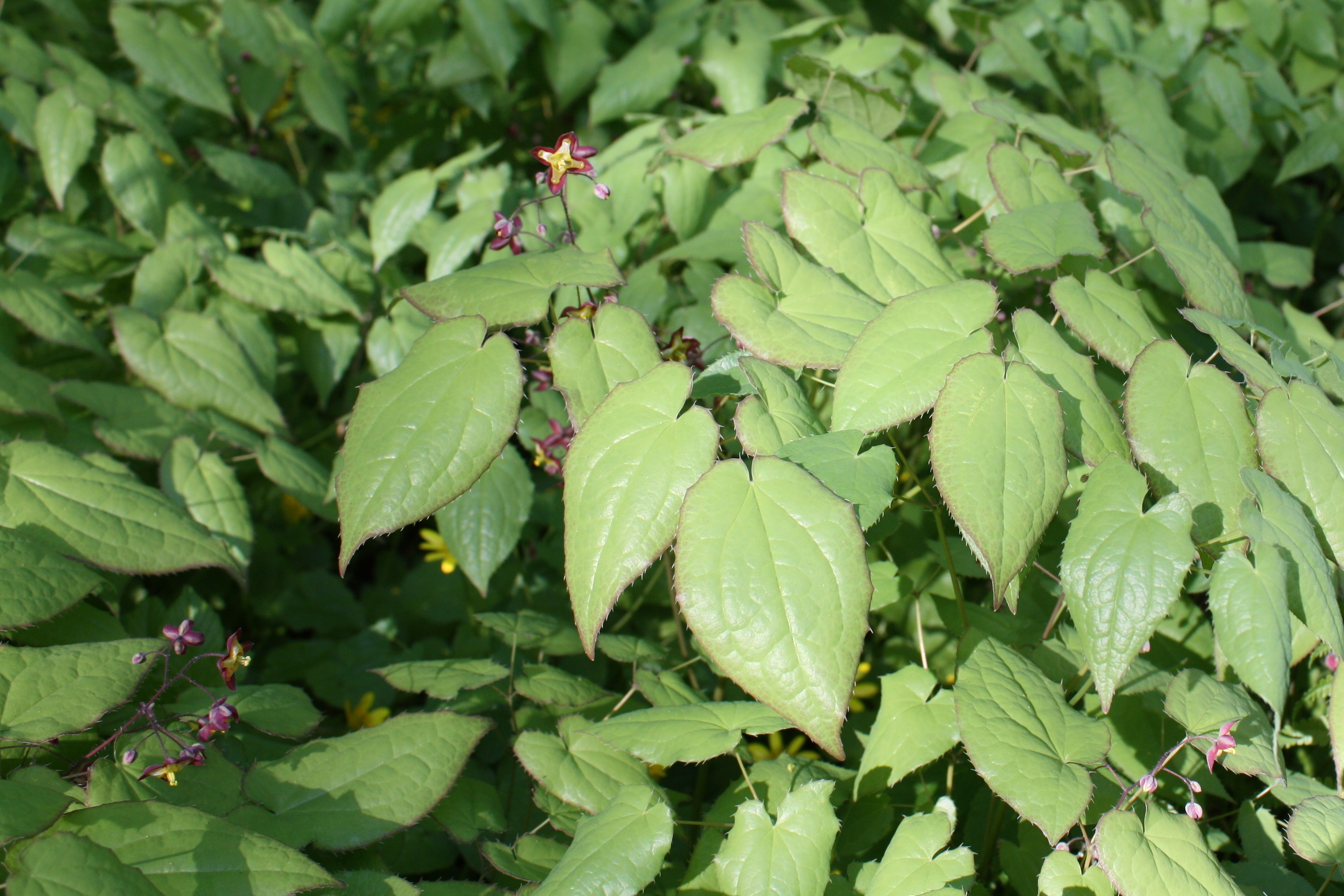 Alpine barrenwort (Epimedium alpinum) in The University of Helsinki Botanical Garden in Kaisaniemi